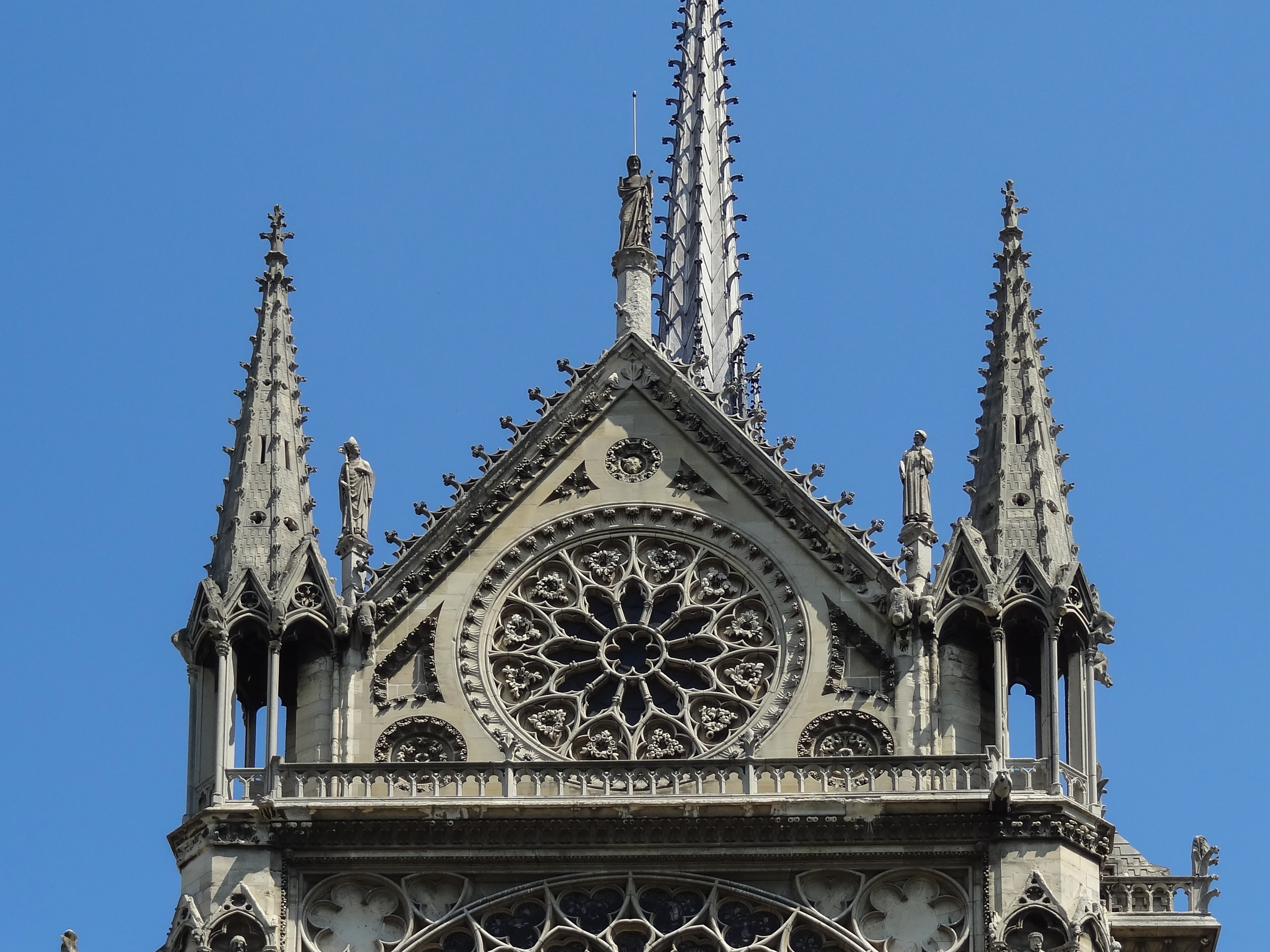 On the Notre Dame de Paris, looking above the South Rose window to the intricate detail and steeples of the cathedral.